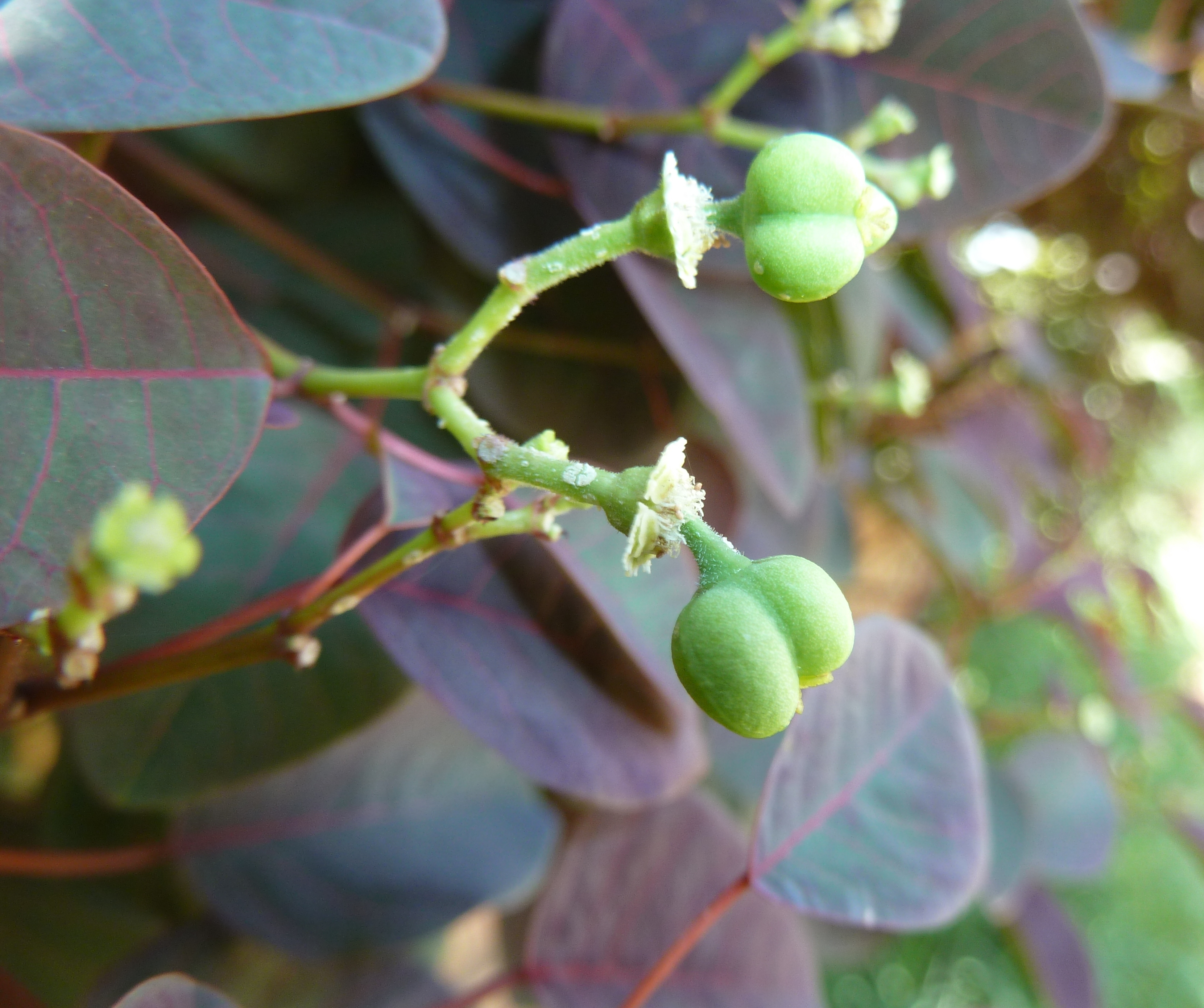 Fruit of a Smoketree spurge in suburban Pretoria, South Africa